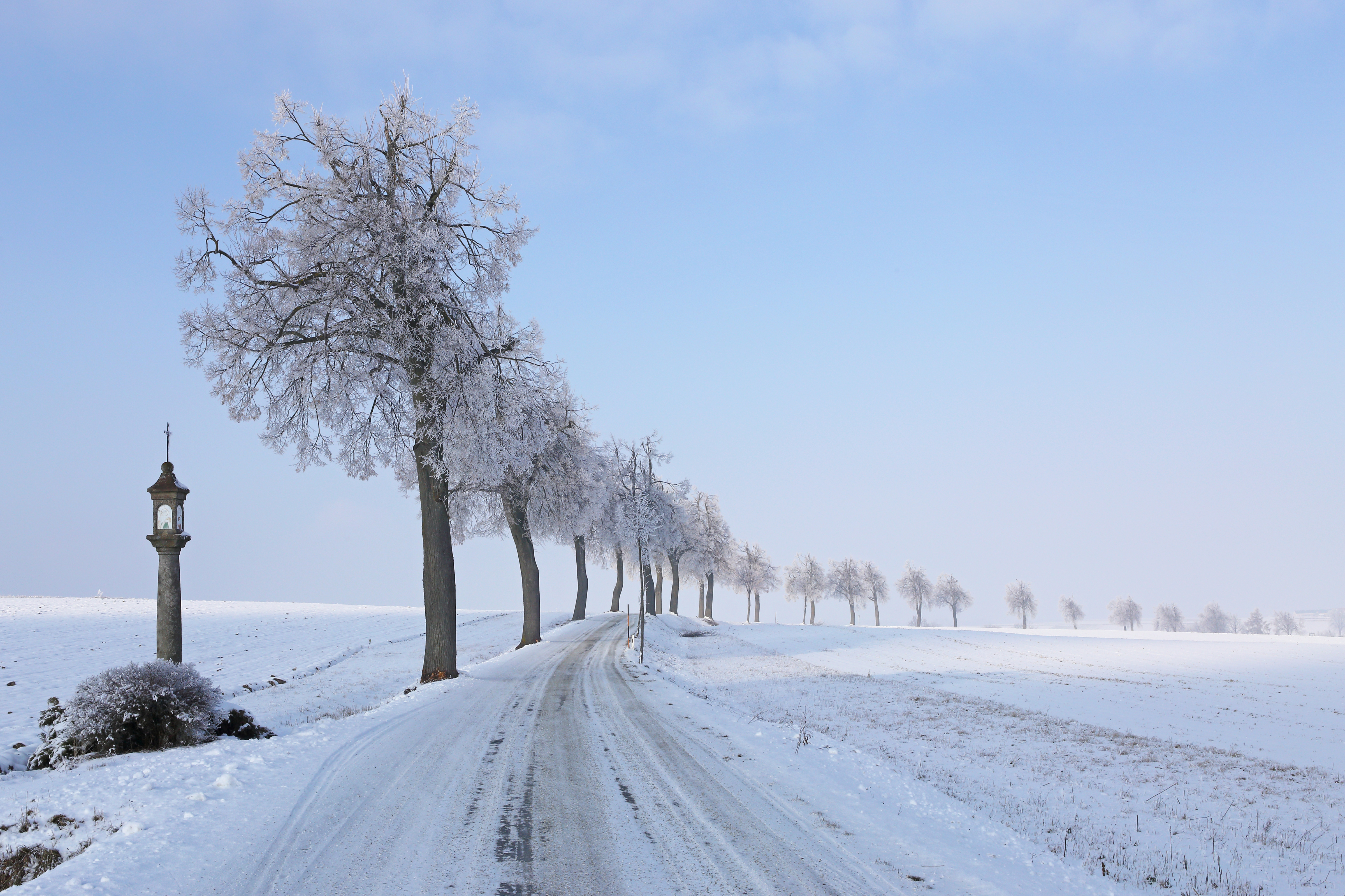 The Lindenallee along Landesstraße 8128 between Buchbach and Griesbach was declared a natural monument in 1995. This media shows the natural monument in Lower Austria with the ID WT-071.